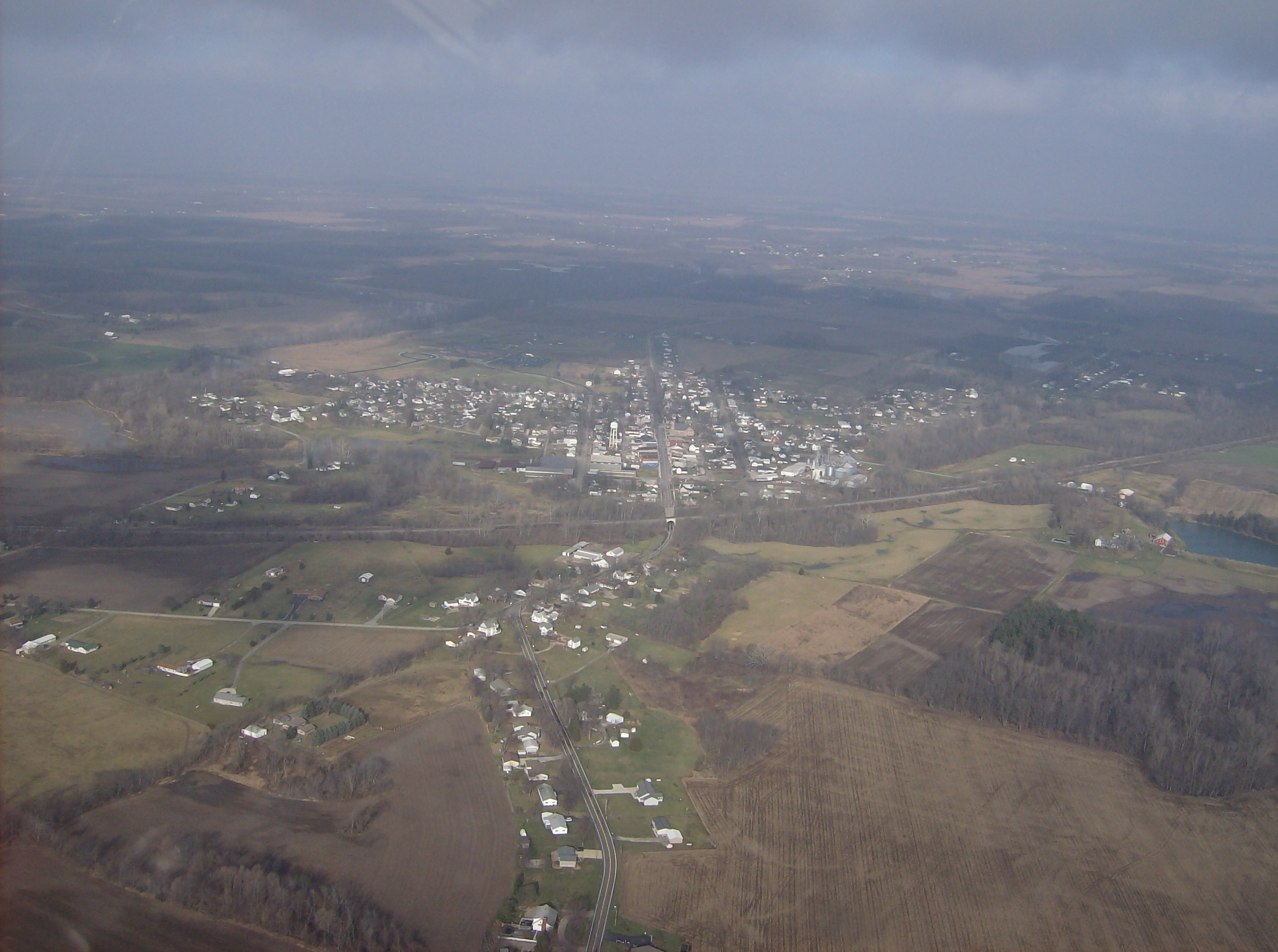 Aerial view of De Graff, Ohio, United States, taken from Diamond Eclipse light airplane. Picture taken from an altitude of 2,350 feet MSL at an bearing of approximately 342º.